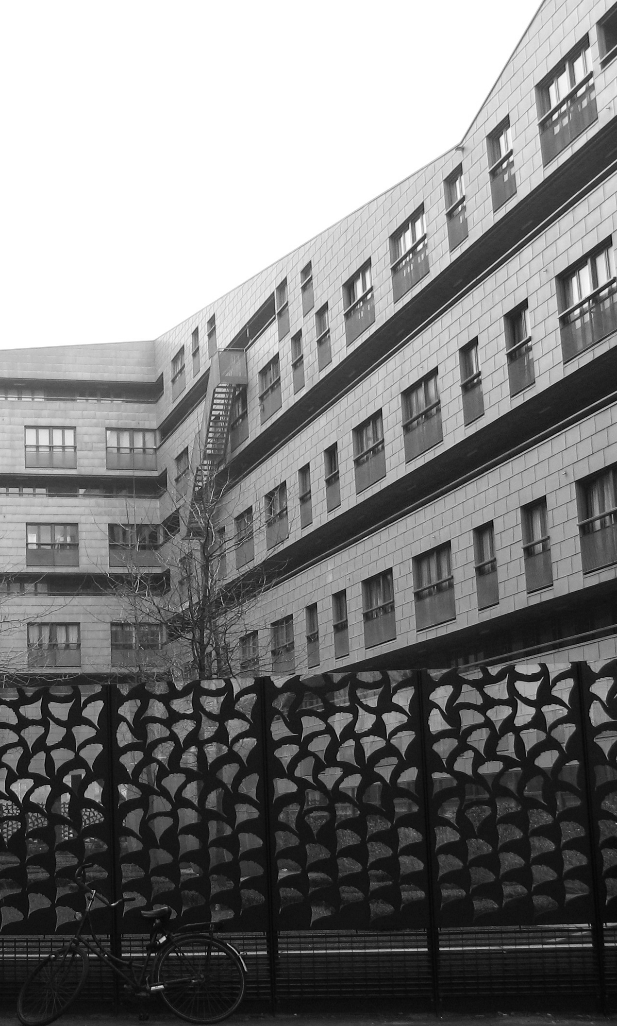 Black and white photo of The Whale housing project by West 8